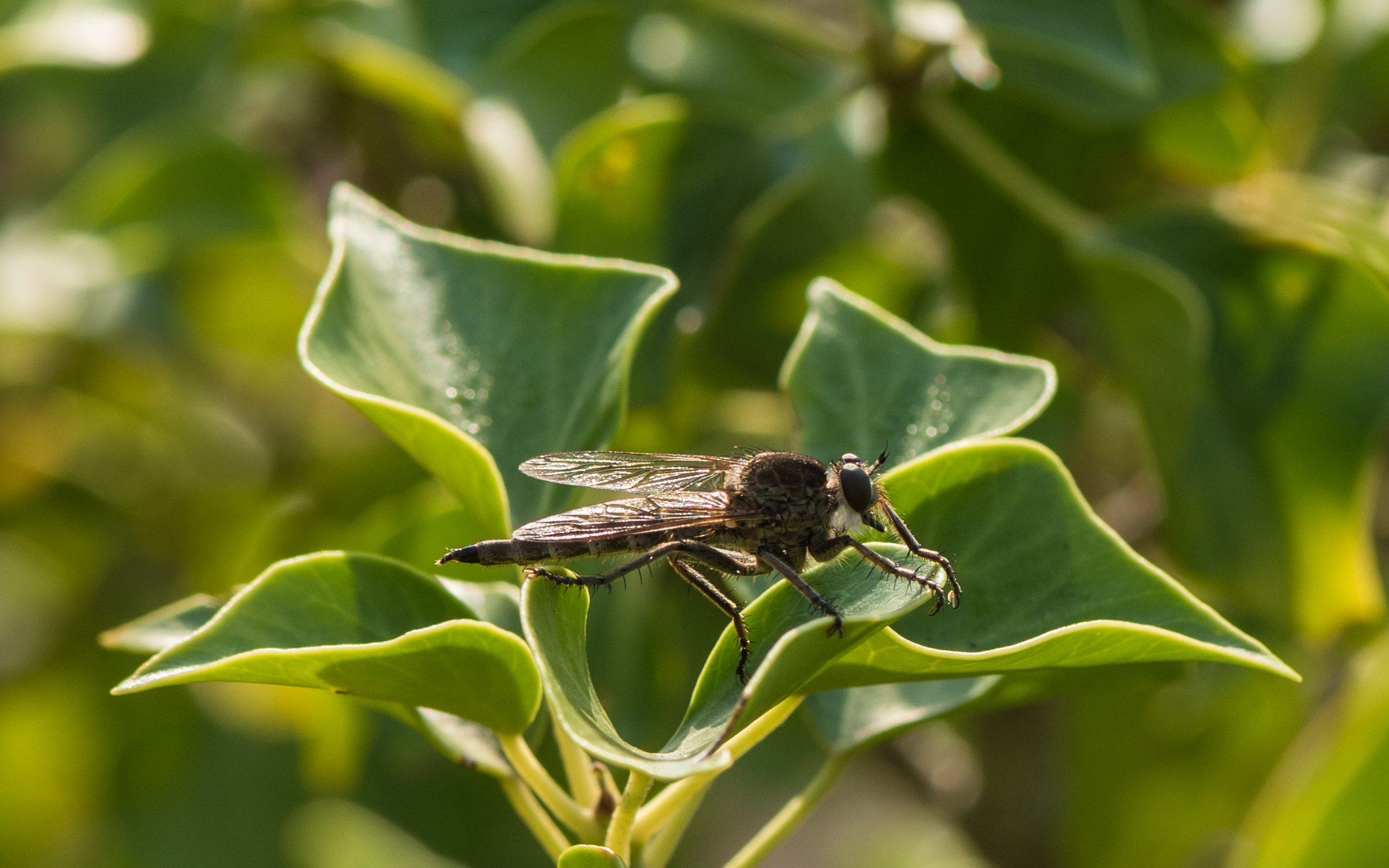 Machimus rusticus, subfamily Asilinae.